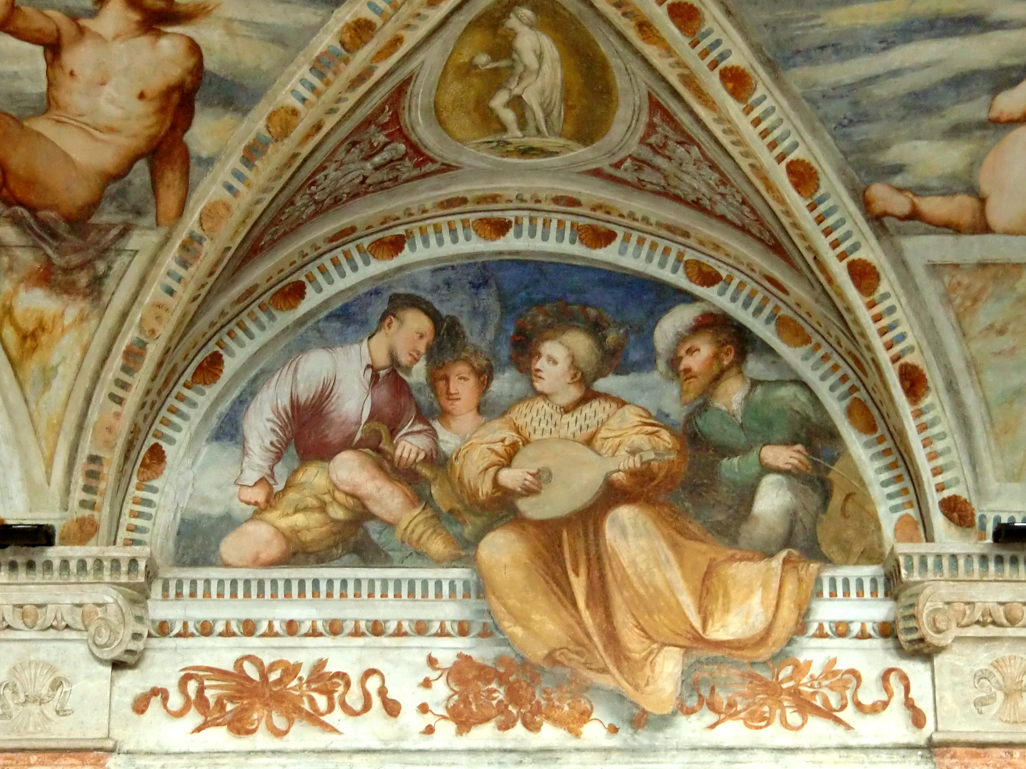 Romanino, Country Concert, 1531-32, Loggia, Castello del Buonconsiglio, Trento